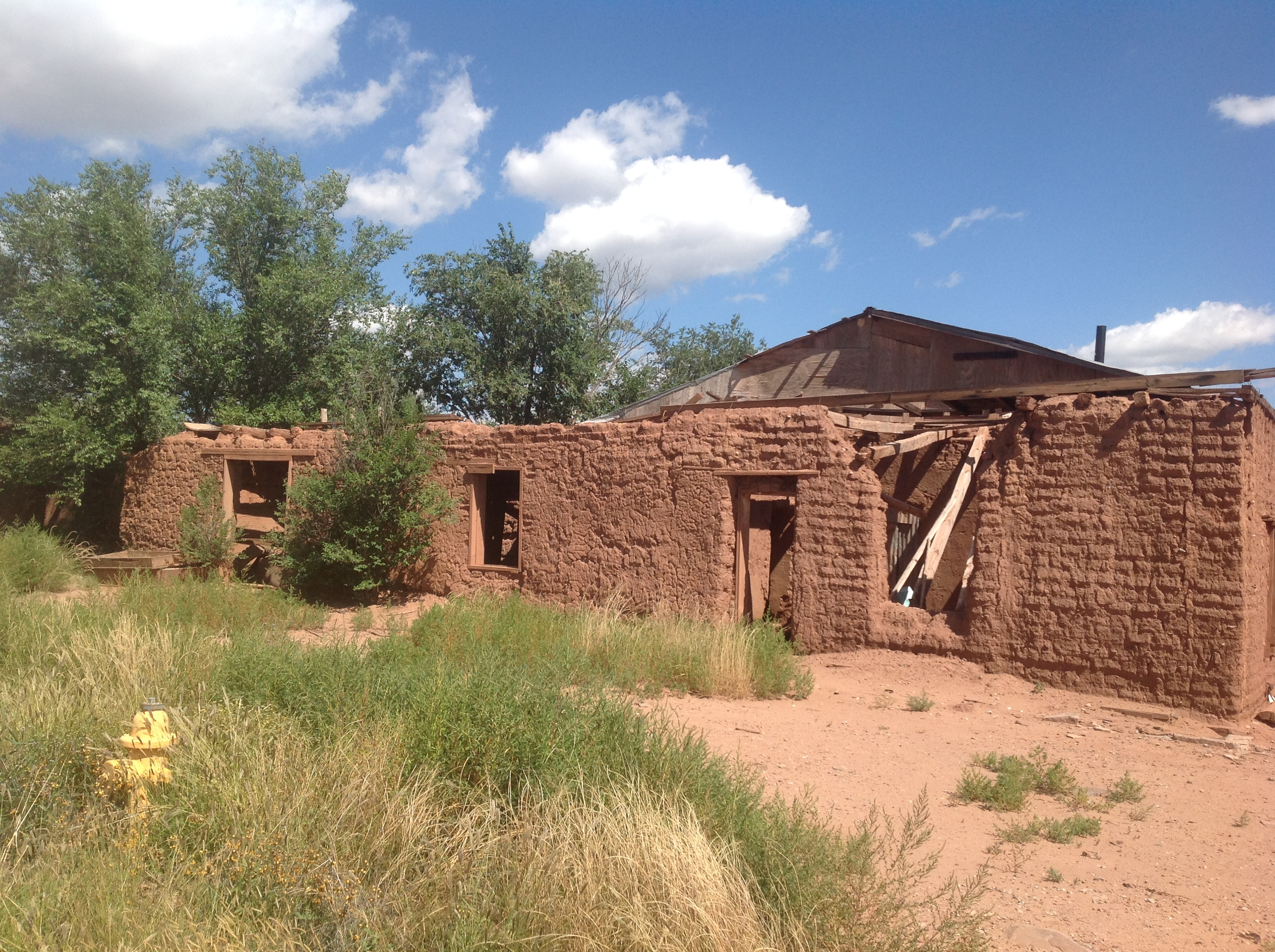 San Miguel del Vado Historic District, Southeast of San Jose on State Road 3, off U.S. Route 84 San Jose - old storage building across from church.